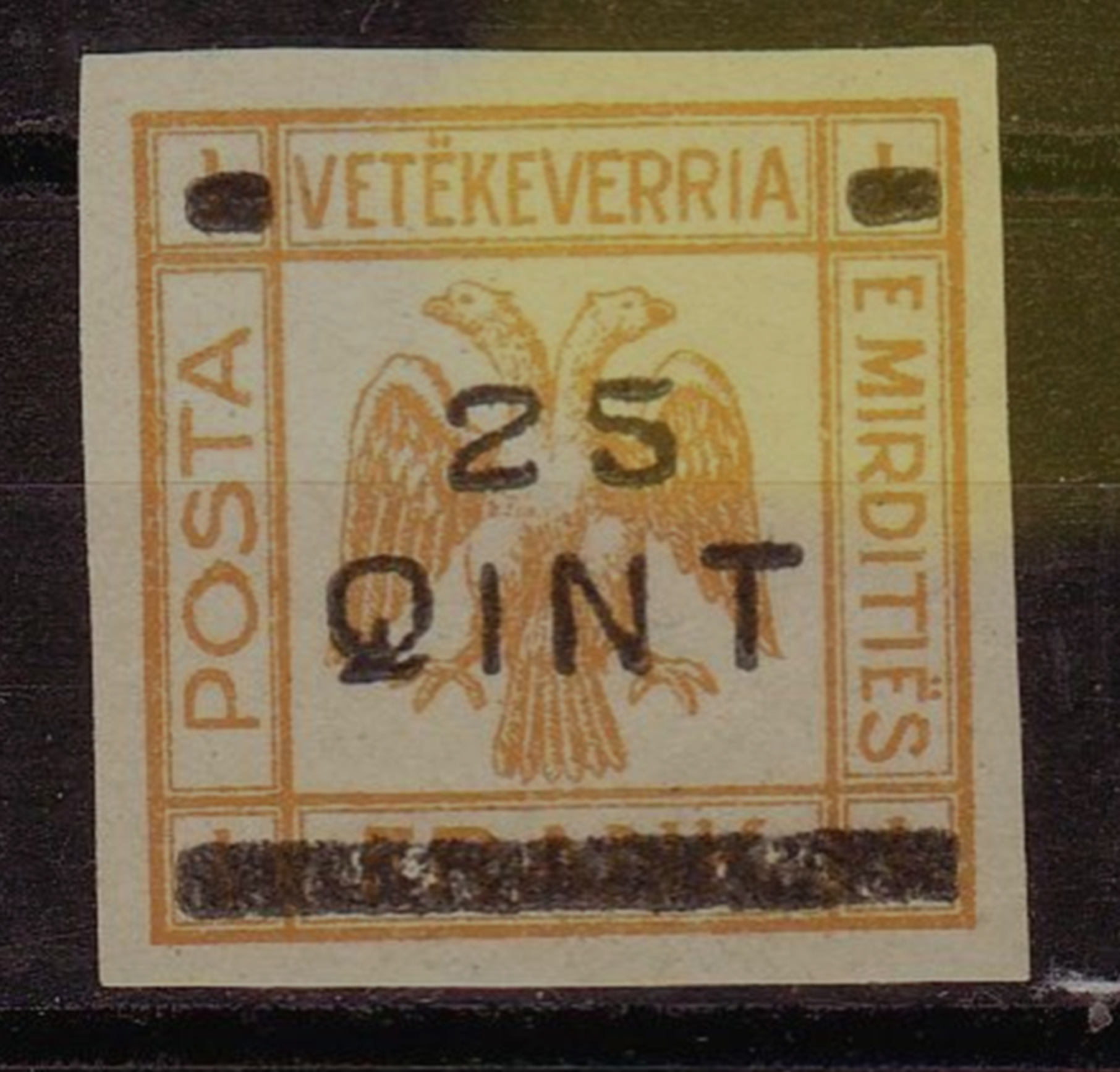 This is a postage stamp from the Republic of Mirdita probably from 1921 when the state existed.